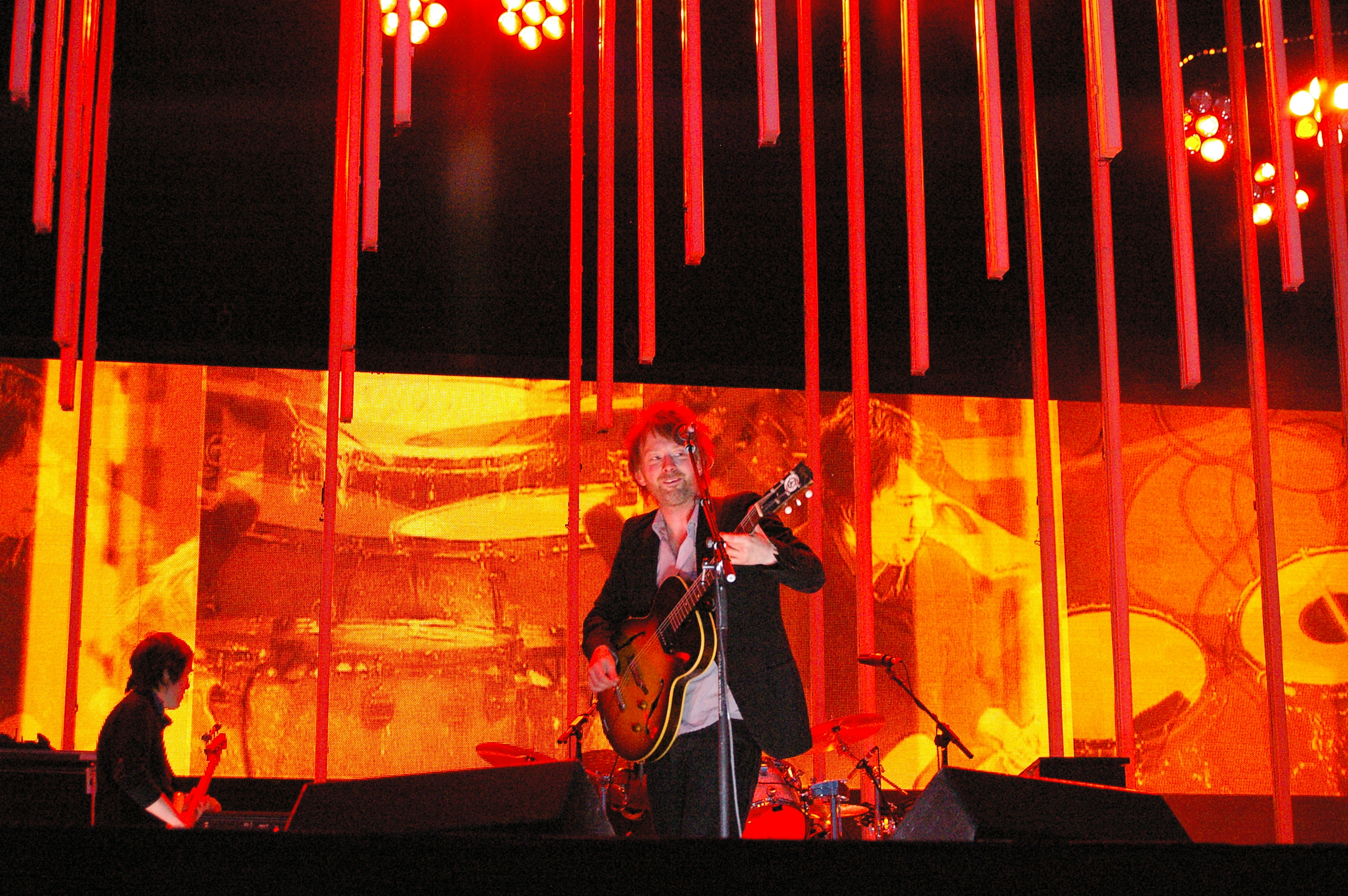 Thom Yorke, Radiohead - Arras, France Radiohead, at Main Square Festival (Arras, France) in July 2008. "In Rainbows" tour.